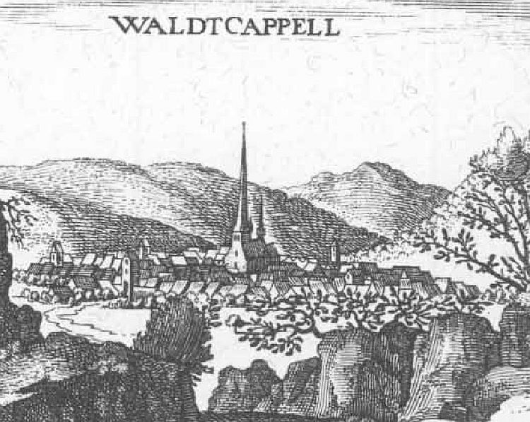 This is a scan of the historical document: Title: Waldkappeln - Topographia Hassiae language: german